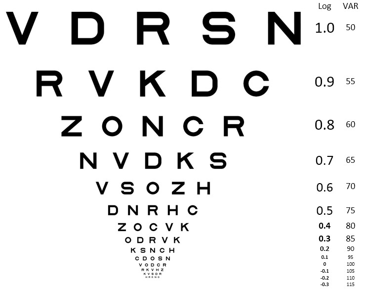 logMAR chart with log and VAR values